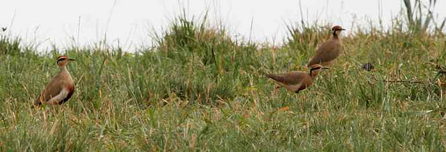 Temminck's Coursers in KwaZulu-Natal, South Africa.